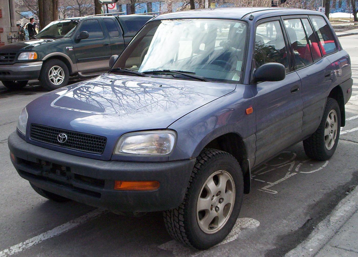 1996-1998 Toyota RAV4 photographed in in Montreal, Quebec, Canada.